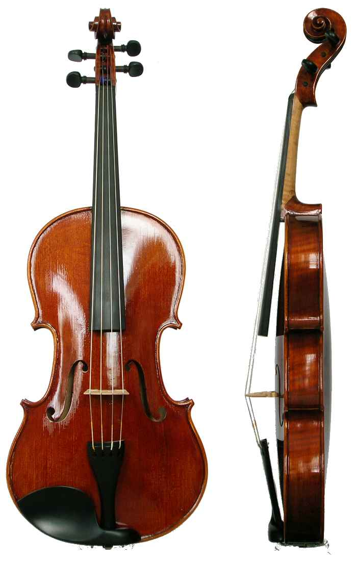 Inexpensive Chinese 16.5" viola, labeled "2006".